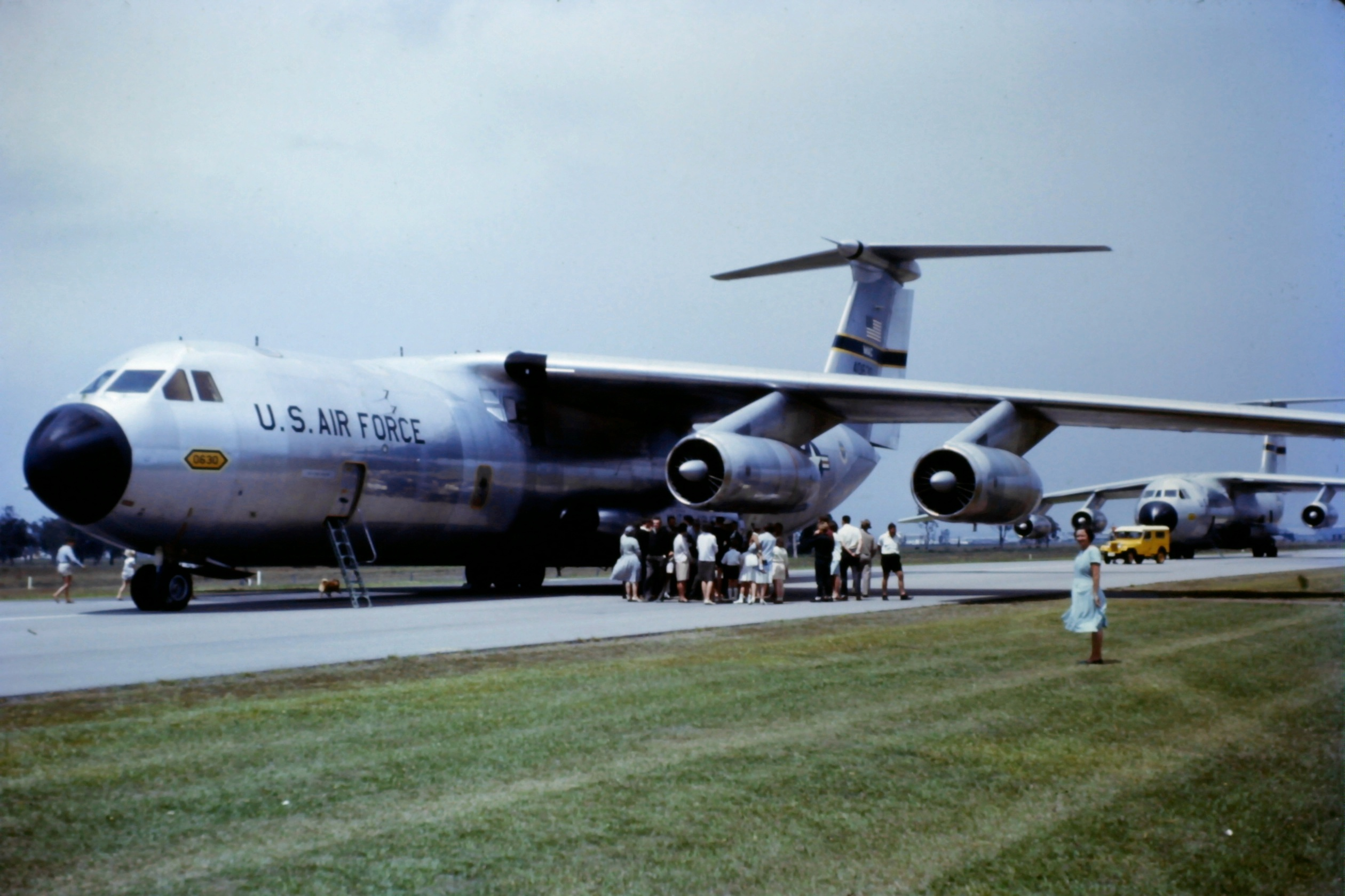 U.S. Air Force Lockheed C-141A Starlifters of 436th Military Airlift Wing, MAC, supporting the visit of President Lyndon B. Johnson to Brisbane, Australia, on 22 October 1966.